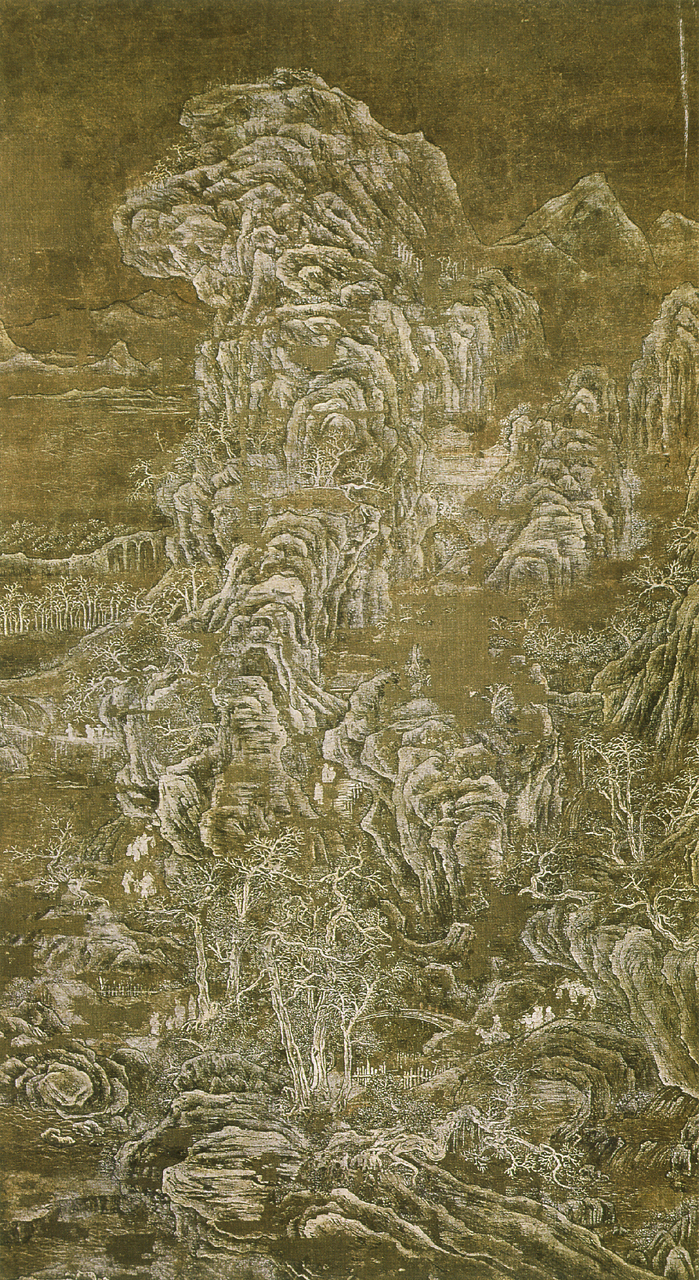 Jing_Hao._Travelers_in_Snow-Covered_Mountains_135.89_x_74.93_cm_Nelson-Atkins_museum